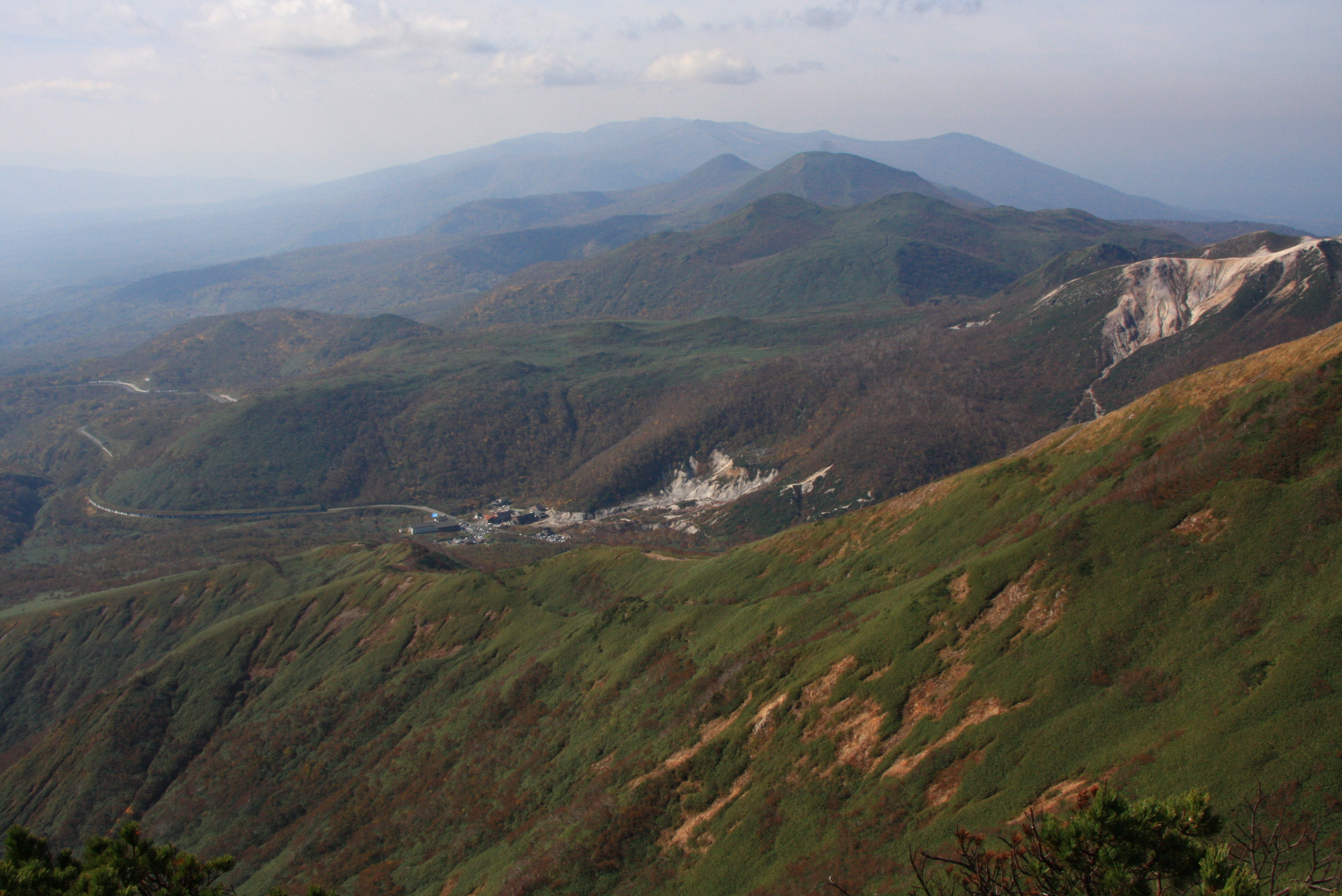 Looking the Southwest from Niseko Annupuri.